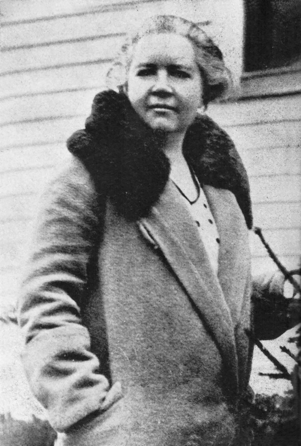 Rose Wilder Lane From Circa 1933 Missouri